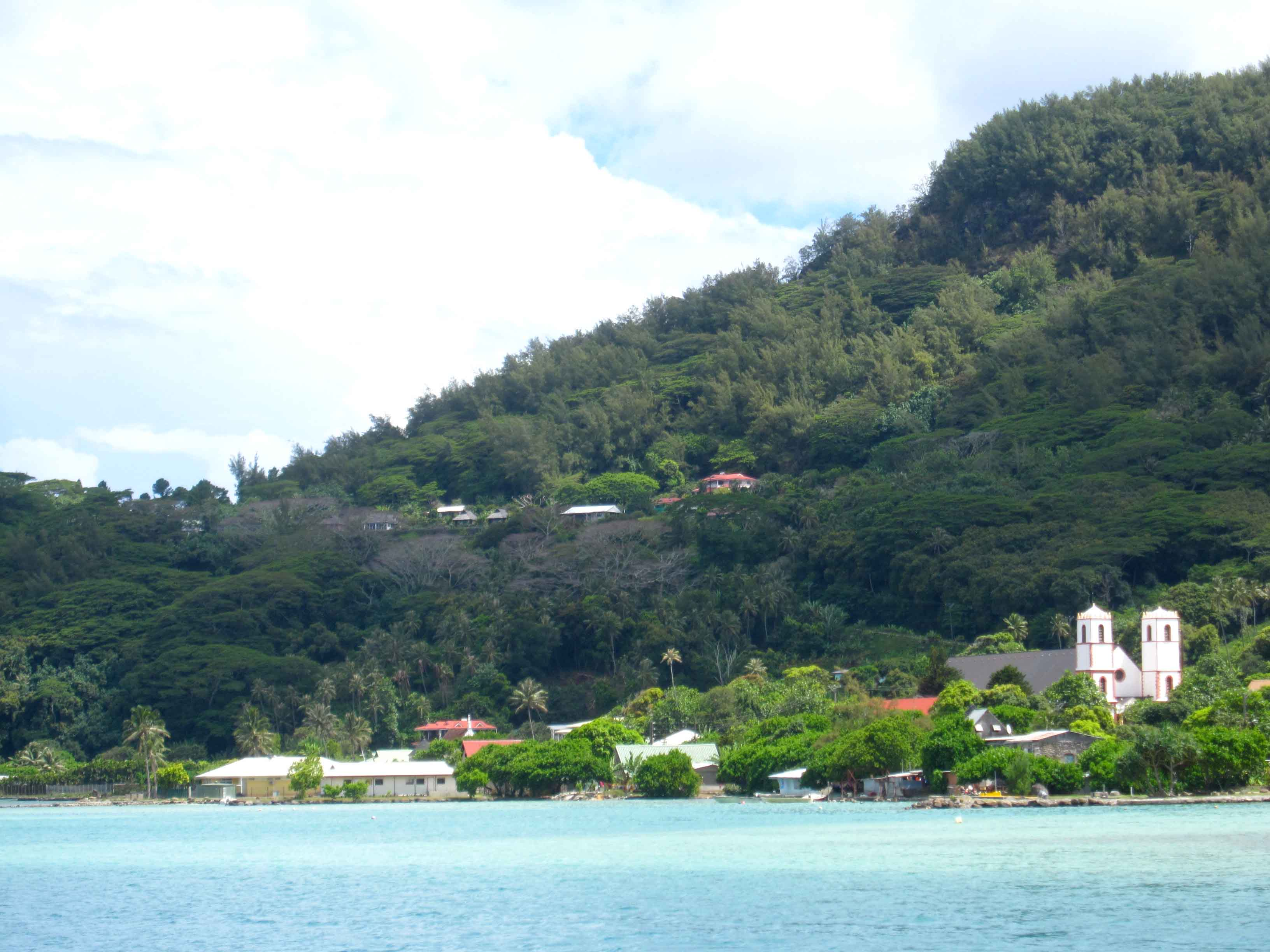 View from Rikitea Bay, on December 31 2013.